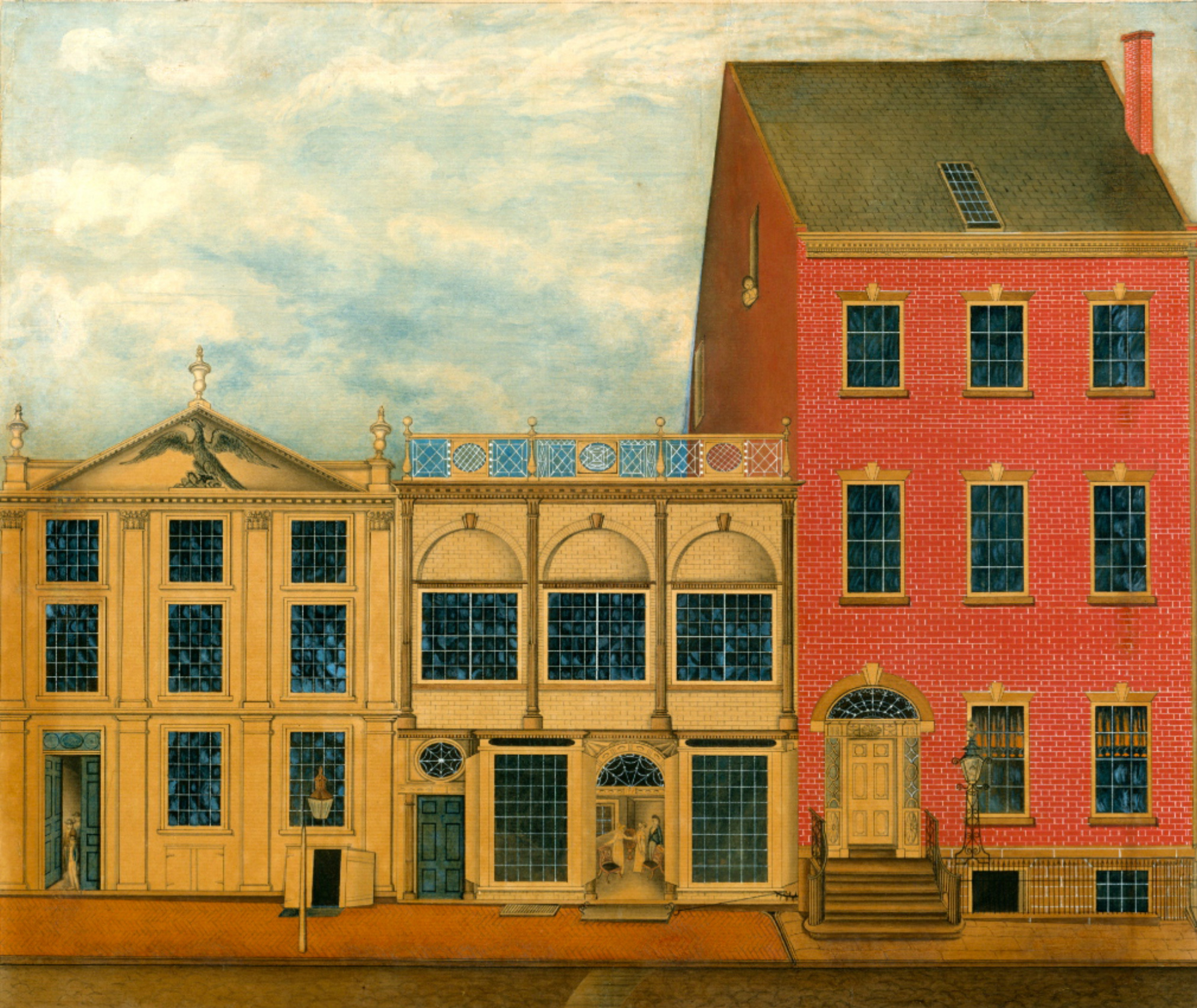 The Shop and Warehouse of Duncan Phyfe, 168–172 Fulton Street, New York City. Medium: Watercolor, black ink, and gouache on white laid paper. Dimensions: 15 7/8 x 19 5/8 in. (40.3 x 49.8 cm)